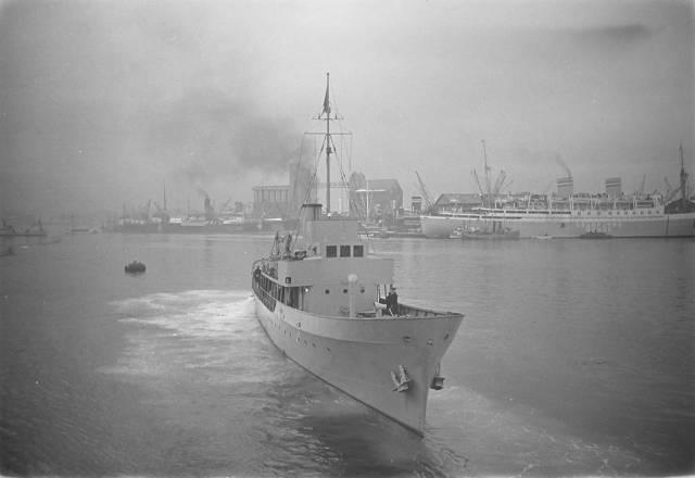 HNoMS Otra, Norway's first purpose-built minesweeper, during tests at Nyland shipyard in Oslo before she was handed over to the Royal Norwegian Navy.